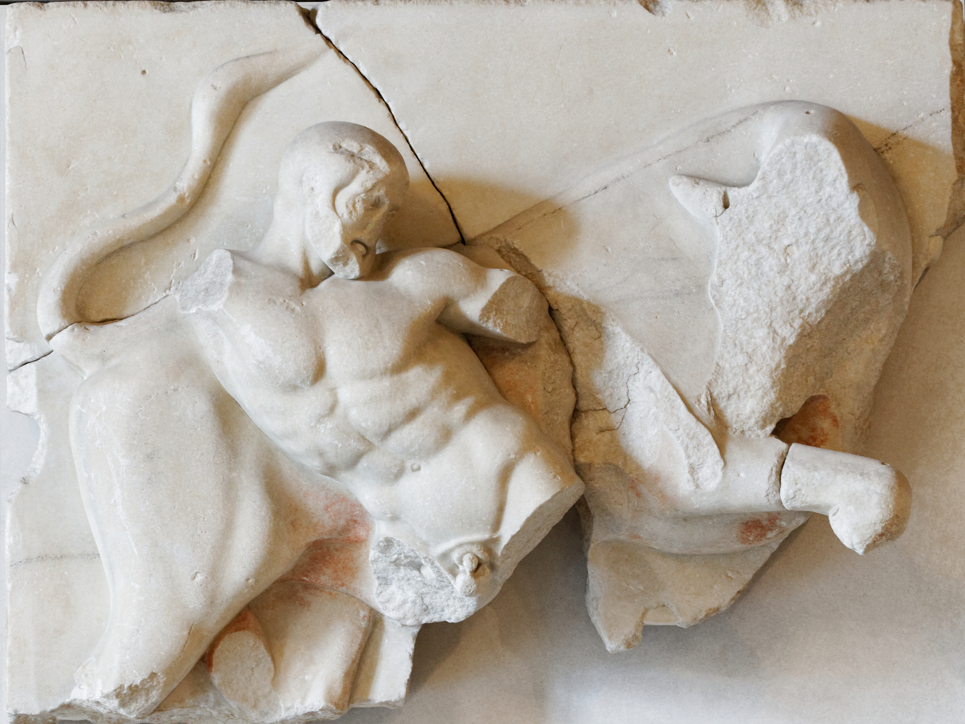 Heracles and the Cretan Bull: fourth metope over the West porch, temple of Zeus at Olympia. Marble, ca 460 BC.